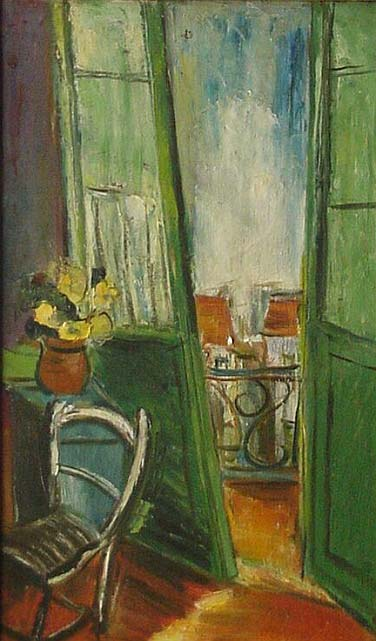 Wolf Kibel, Studio, undated, oil on canvas, 500 x 300 mm